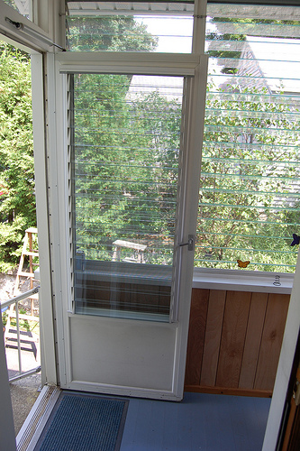 Photo showing jalousie windows and jalousie storm door